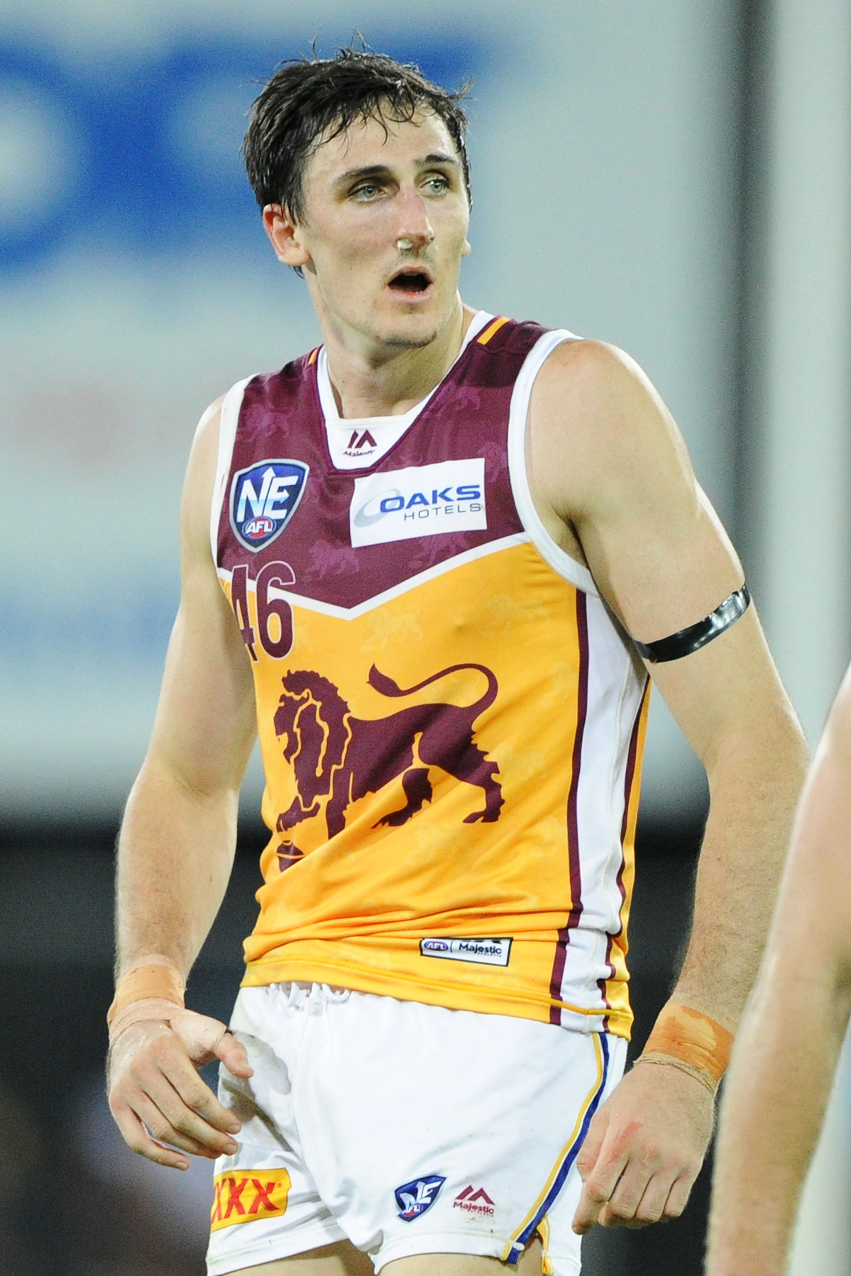 Oscar McInerney of the Brisbane Lions during the NEAFL round one match between NT Thunder and Brisbane Lions at TIO Stadium on 7 April 2018 in Darwin, Australia.